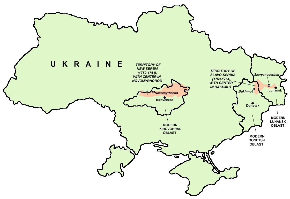 Map of the location of historical New Serbia (1752-1764) and Slavo-Serbia (1753-1764) and comparison with the location of modern provinces of Ukraine.